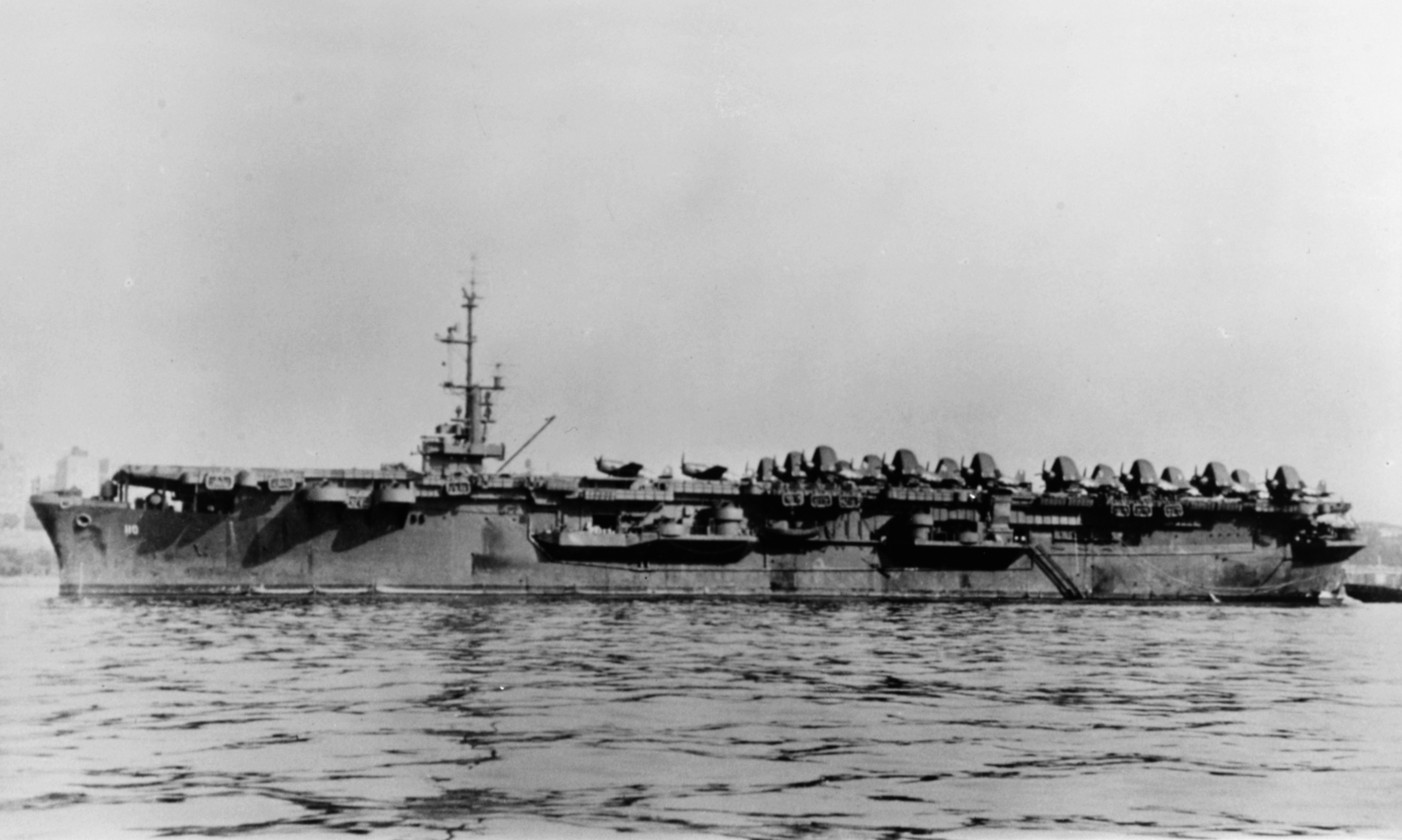 The U.S. Navy escort carrier USS Salerno Bay (CVE-110) off New York City (USA) on 29 May 1946.